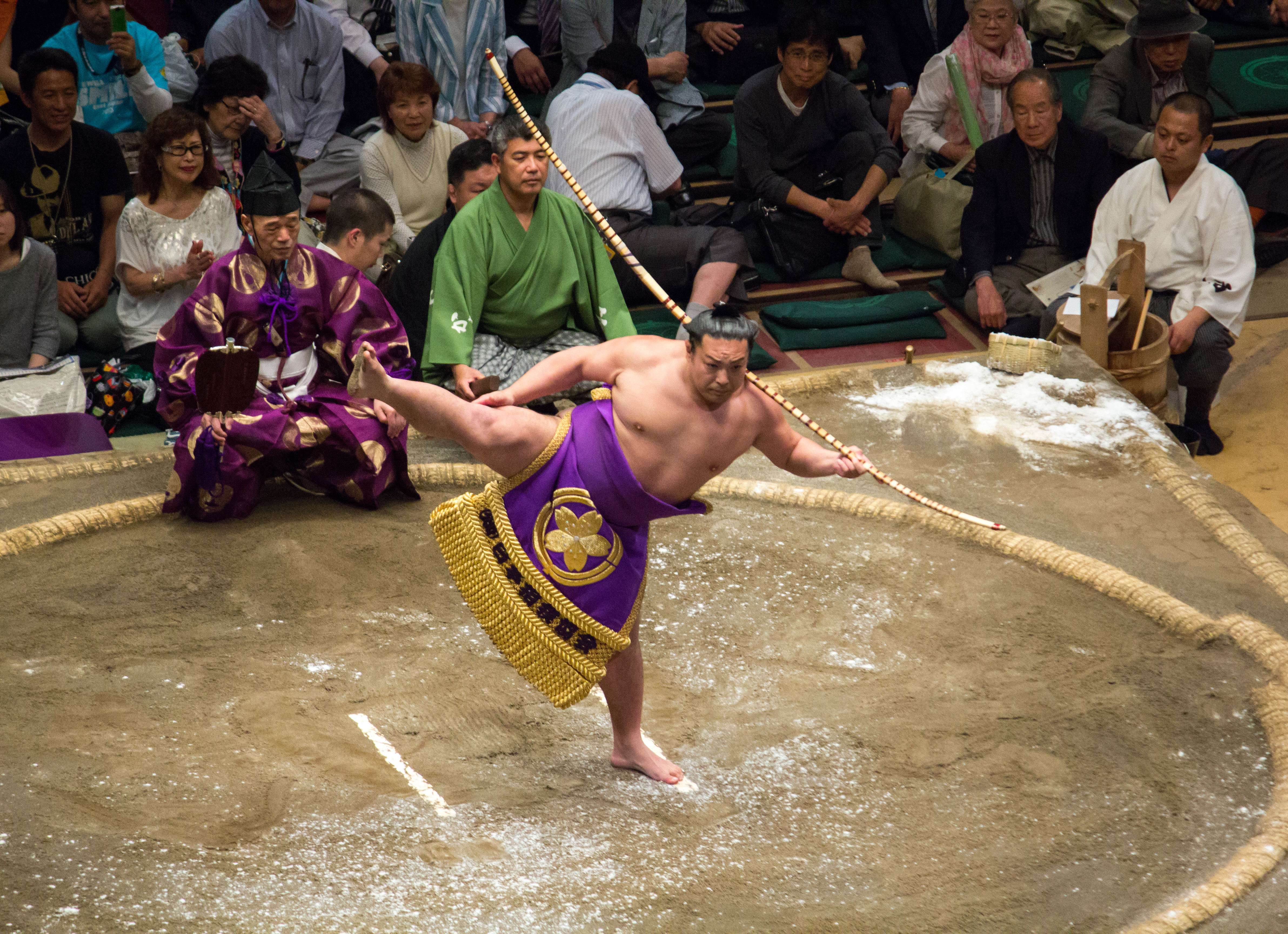 A sumo wrestler performs the yumitori-shiki (or bow-twirling ceremony), at the 2014 May Grand Sumo Tournament in Tokyo, Japan. The yumitori-shiki is performed at the end of each tournament day by a designated wrestler, the yumitori, who is usually from the Makushita division. The wrestler in the picture is Satonofuji. Canon EOS 60D + EF-S 55-250mm F4-5.6 IS